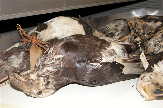 Pied Raven (Corvus corax varius, partial albino - which is in fact leucism), Zoologisk Museum, Copenhagen.